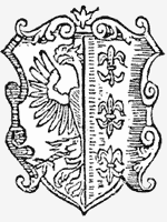 Decorative cartouche with coat of arms of Bielsko (Cieszyn Silesia) from 1610.